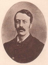 Charles Villiers Stanford (1852-1924)